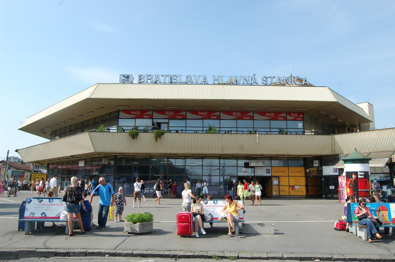 Bratislava Main Station